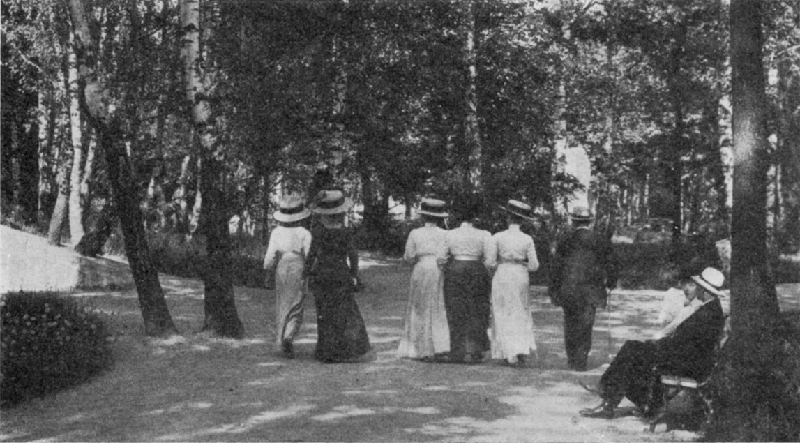 Park in Oskarshamn Sweden in the early 20th century.